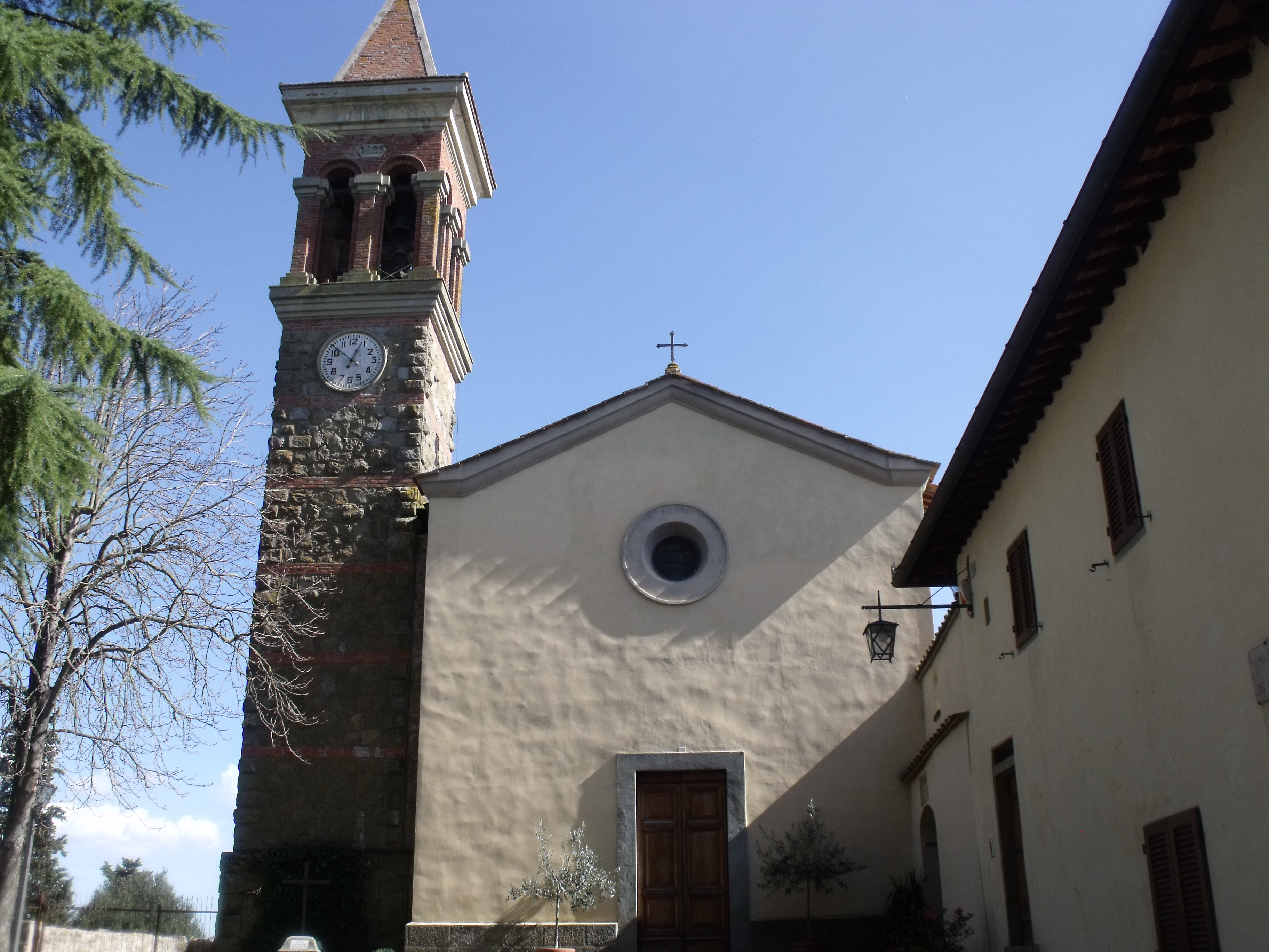 Church San Bartolomeo in Badia al Pino, hamlet of Civitella in Val di Chiana, Province of Arezzo, Tuscany, Italy